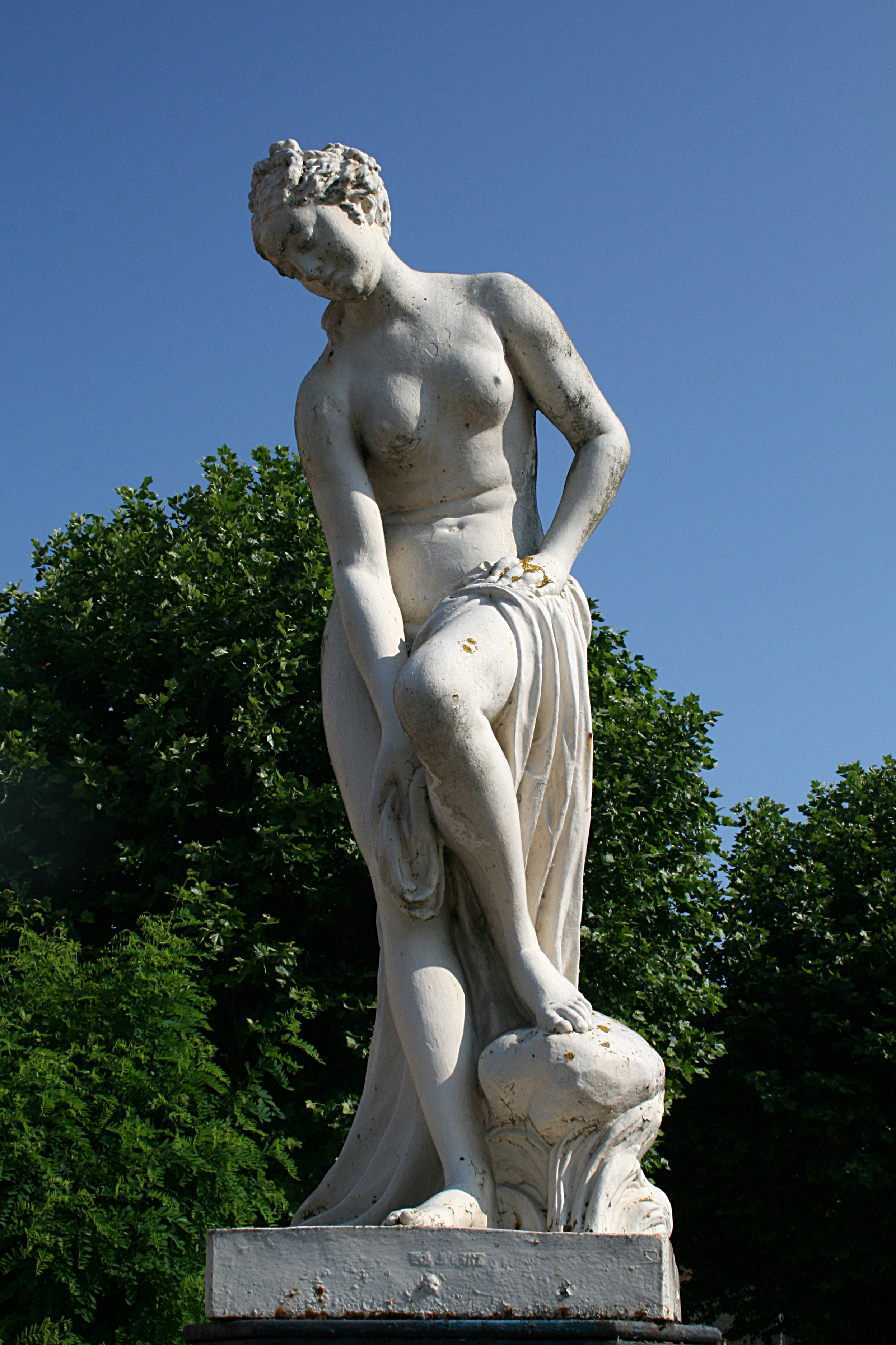 La Chapelle-Gauthier ( Seine-et-Marne]), rue Grande – Statue adorning the public fountain on rue Grande.